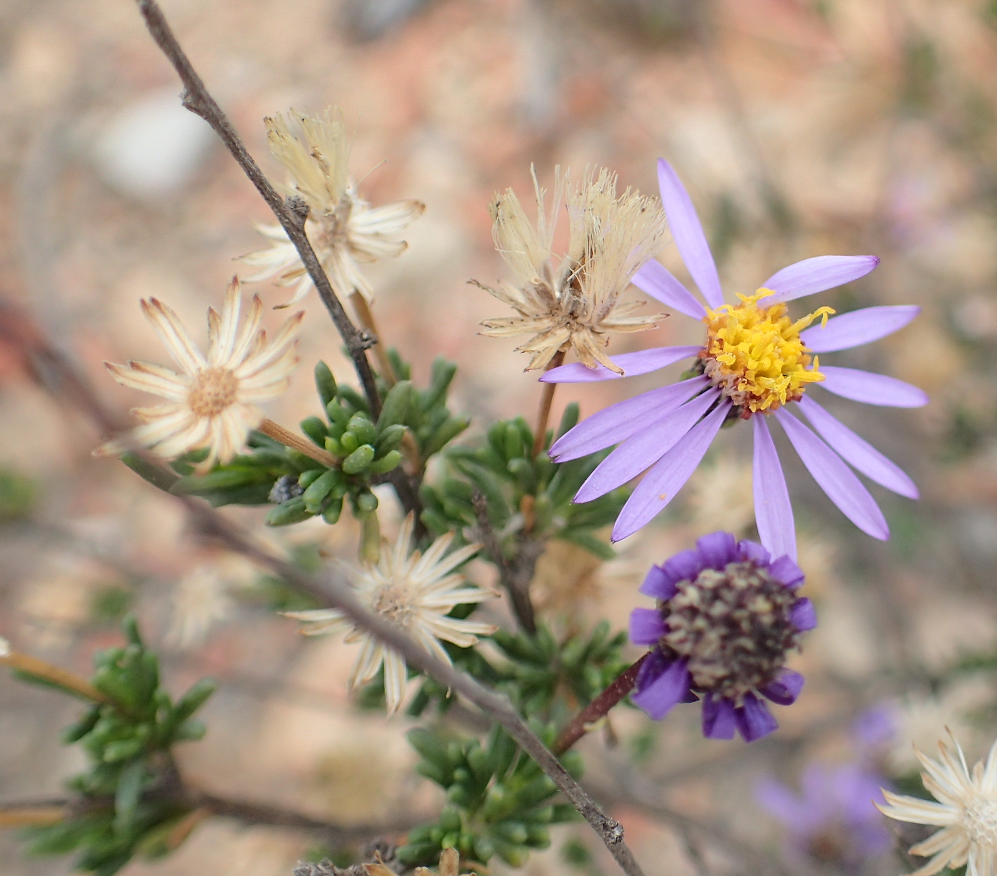 Felicia filifolia ssp. schaeferi, photographed by Peter Warren, on 14 May 2018, along the Baviaanskloof Scenic Route, in Willowmore County, Eastern Cape province of South Africa